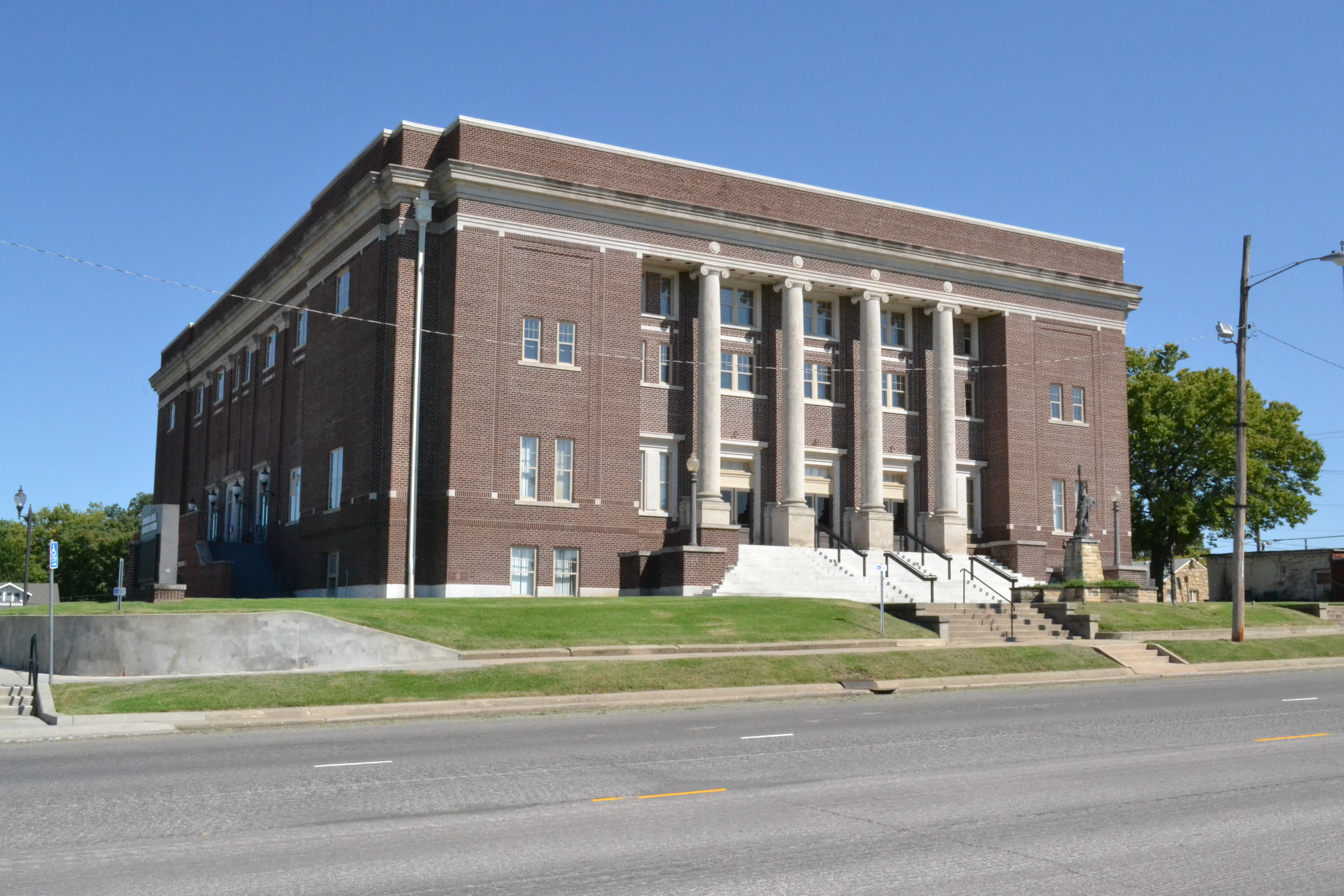 Memorial Hall in Independence, KS. Listed on the national Register of Historic Places.